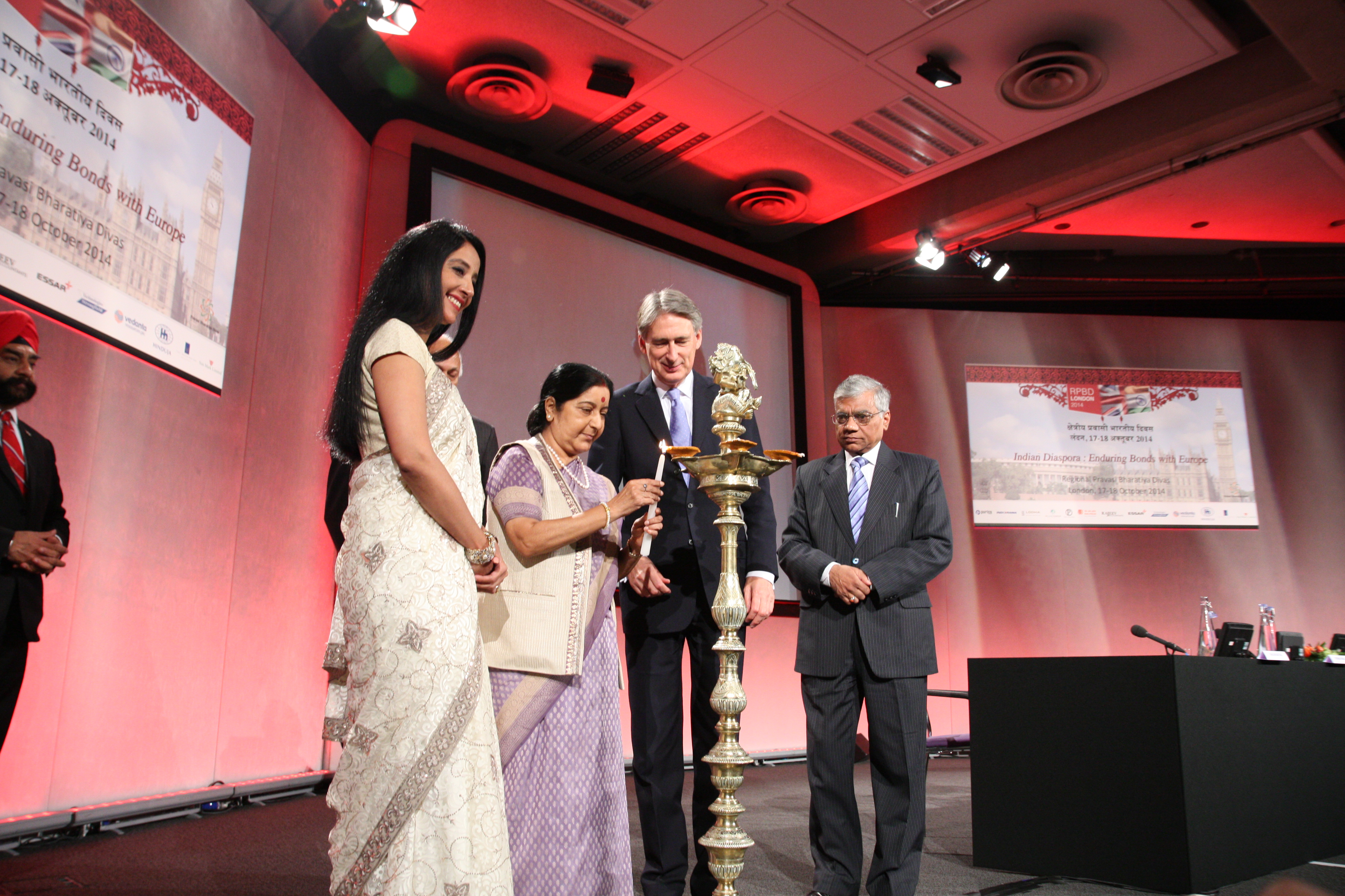 Foreign Secretary Philip Hammond and Sushma Swaraj, External Affairs Minister of India at the 2014 Regional Pravasi Bharatiya Divas Convention in London, 17 October 2014.